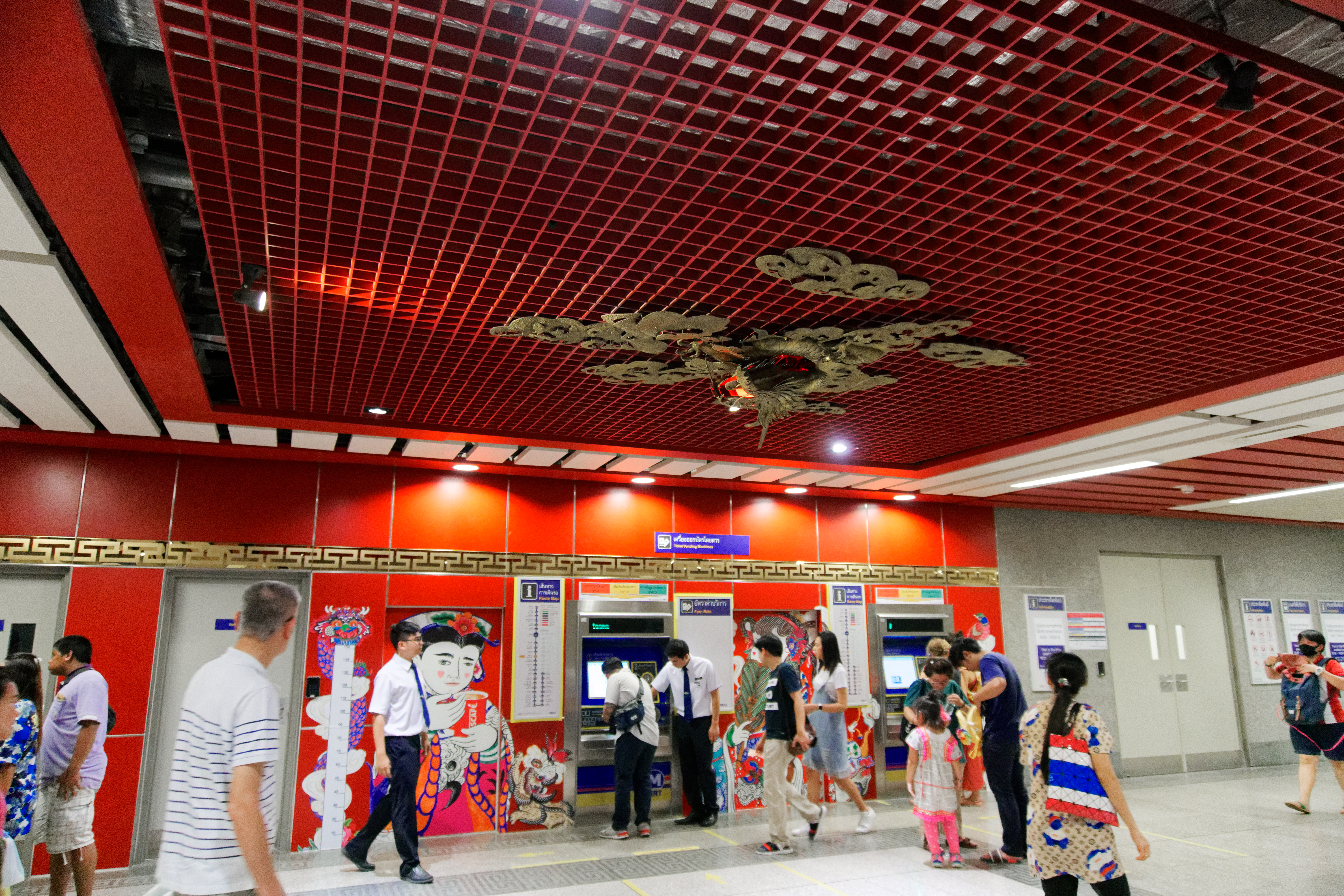 MRT Wat Mangkorn vending machines